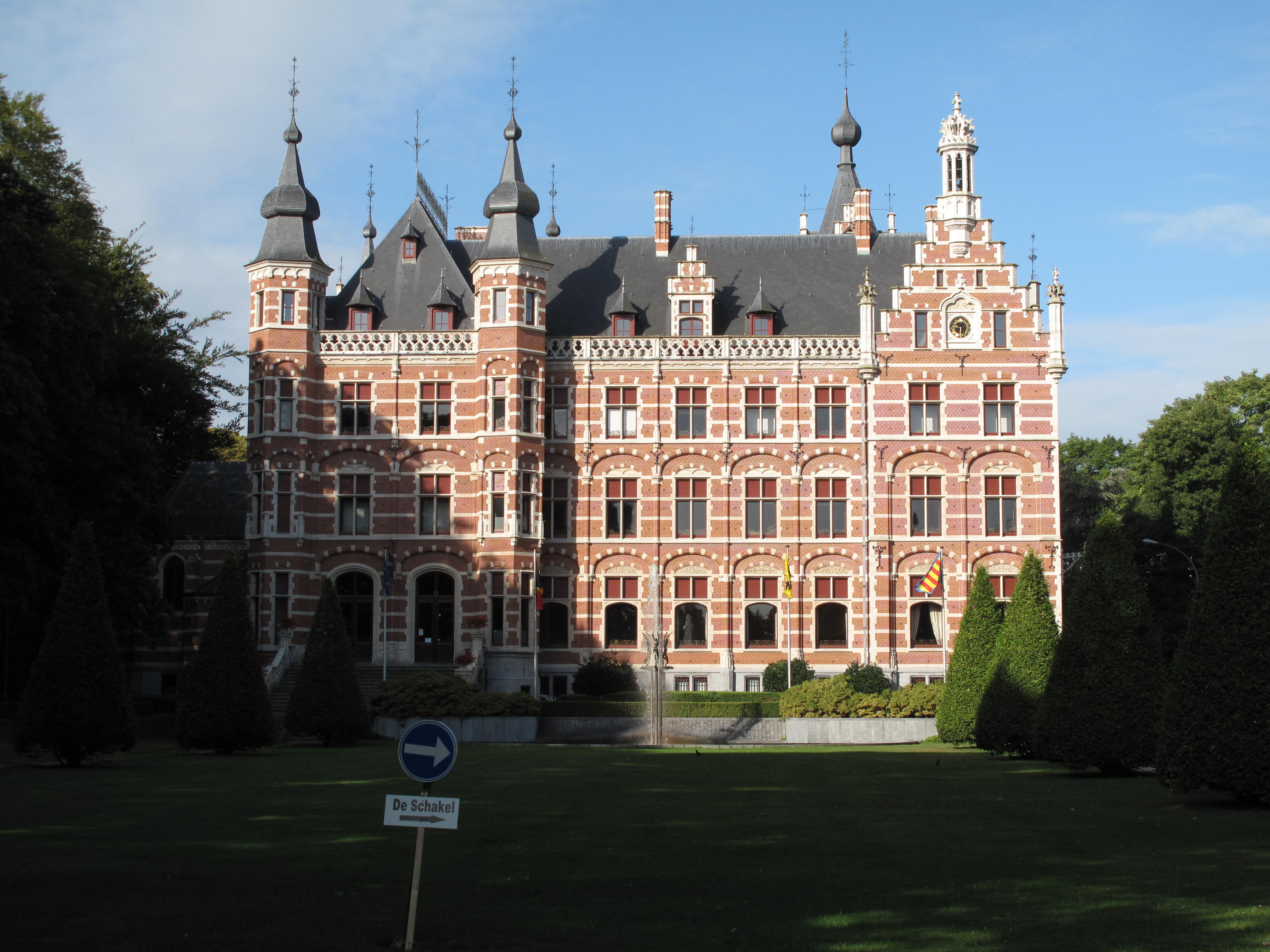 Westerlo, town hall